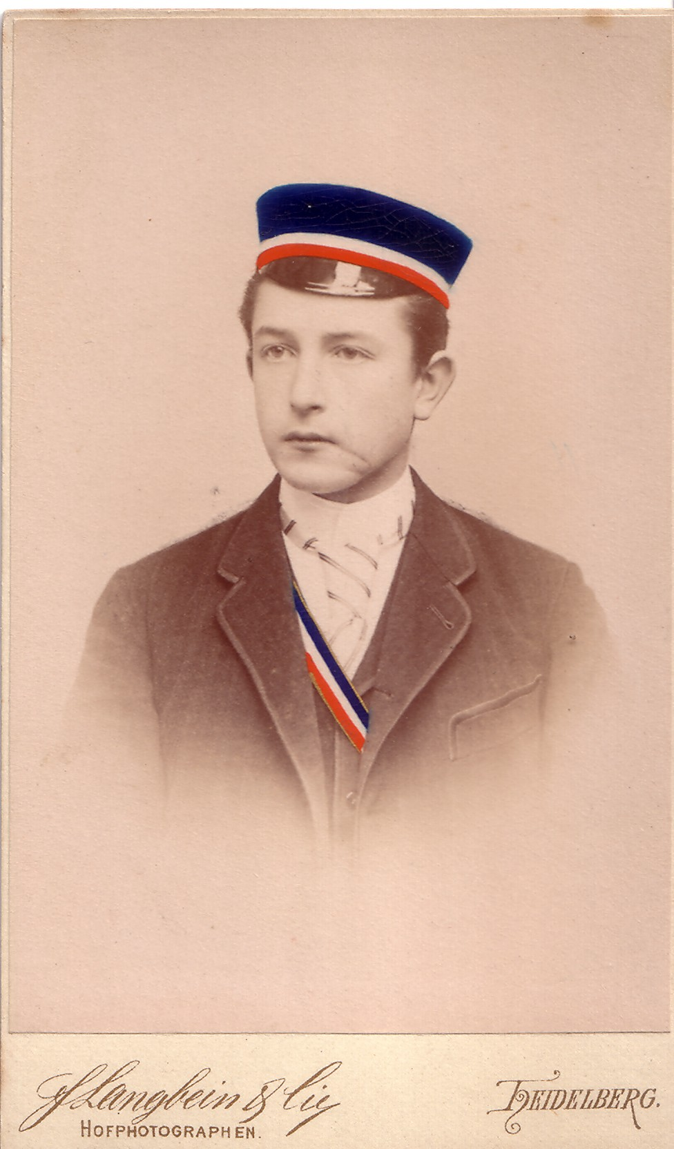 Heinrich Schnee as a member of the Corps Rhenania Heidelberg